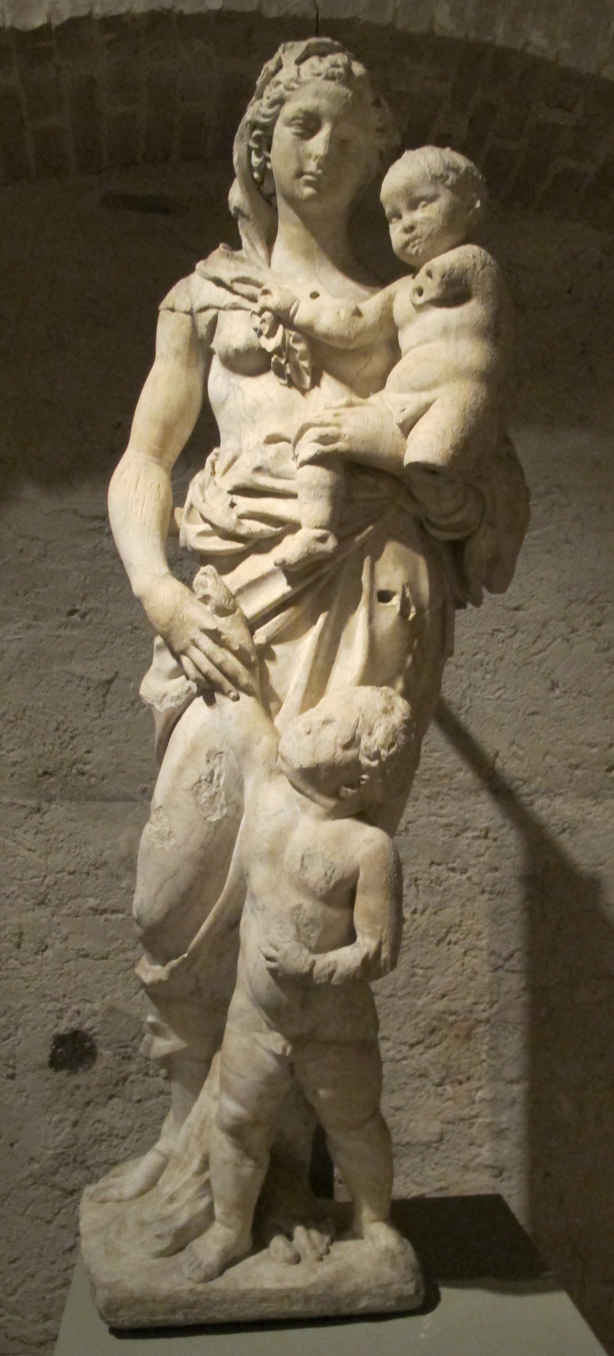 Santa Maria della Scala Hospital (Siena)